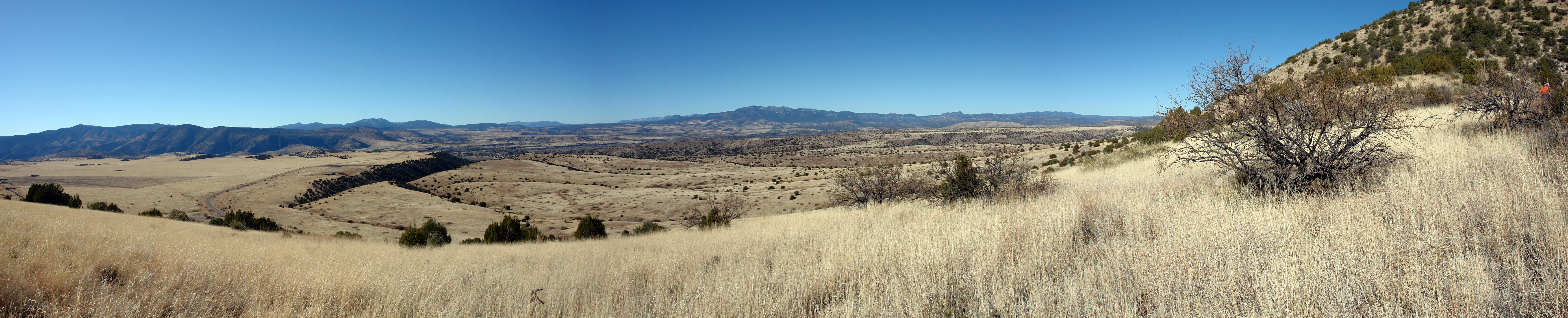 a panoramic view west taken from the foothills just north of the Catwalks trailhead, outside of Glenwood, New Mexico